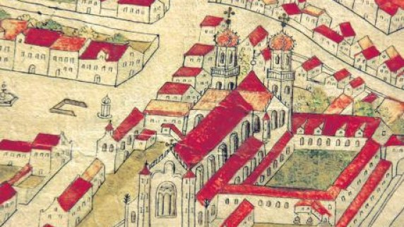 Illustration from 1521 showing the Imperial abbey of St. Ulrich and St. Afra in Augsburg.